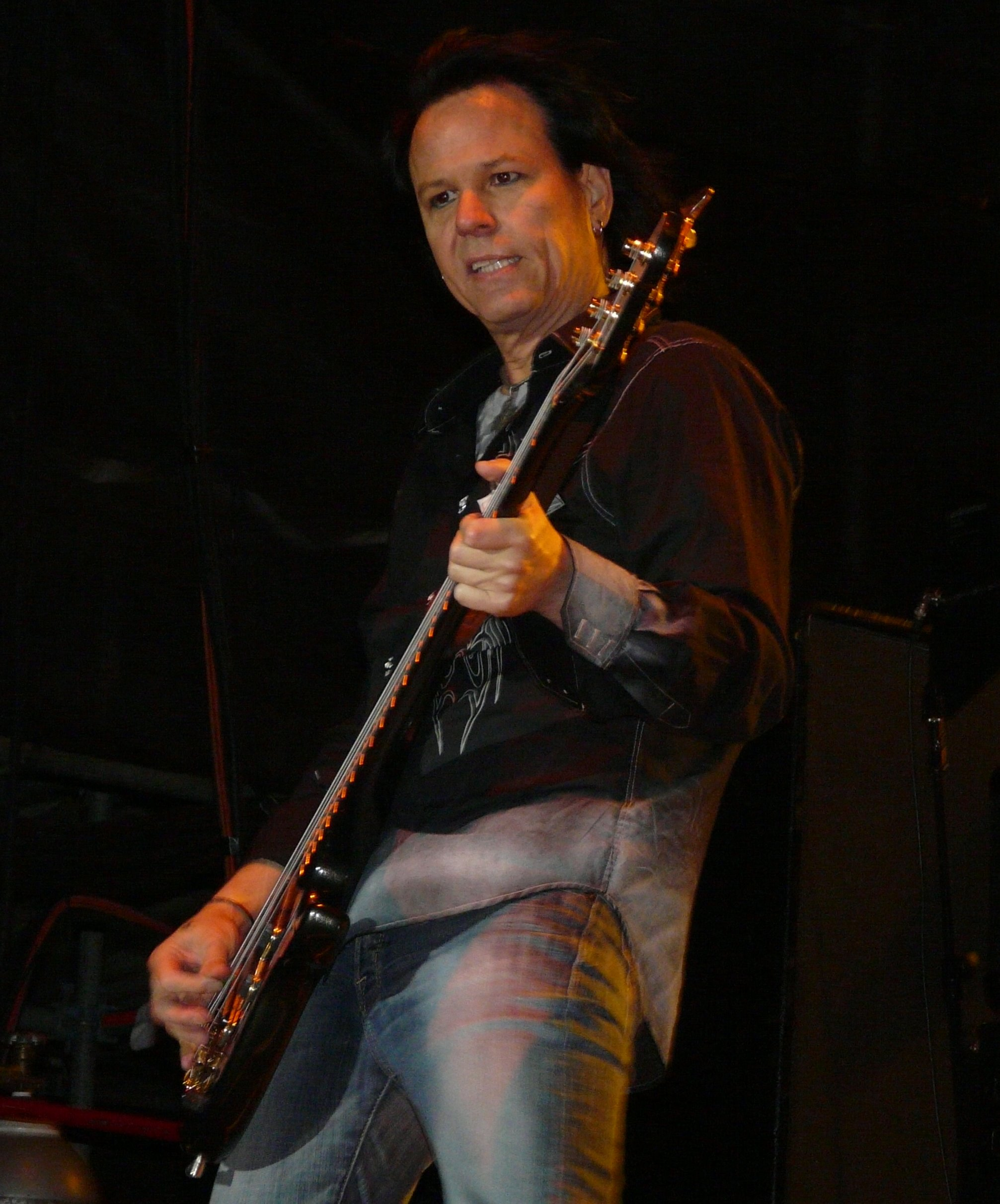 Bobby Dall with POISON at the Moondance Jam on July 11, 2008 in Walker, Minnesota PHOTO BY MATT BECKER